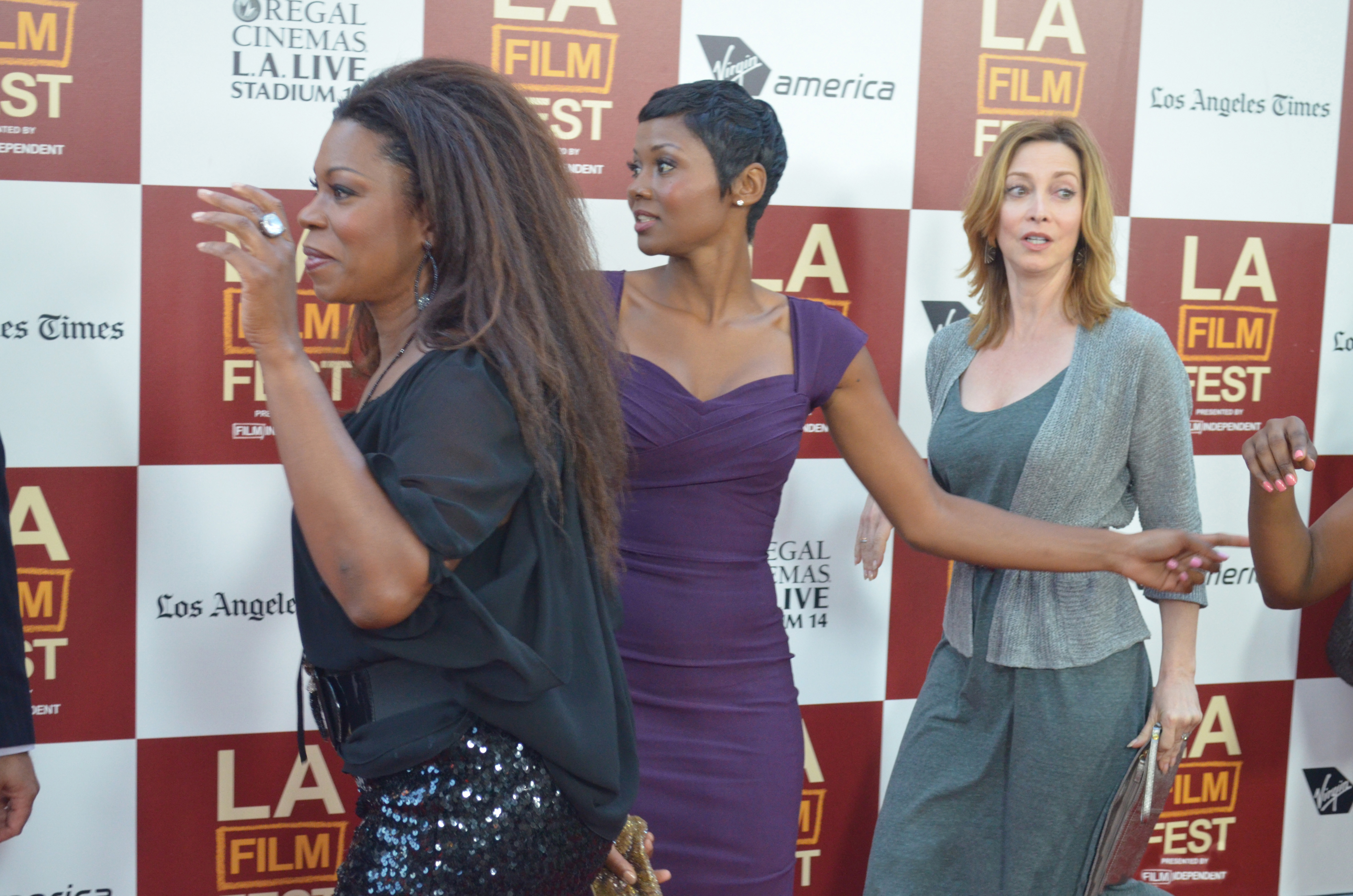 Middle of Nowhere - Sharon Lawrence, Emayatzy Corinealdi and Lorraine Toussaint